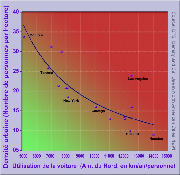 Association between urban density (nb. of people/hectare) and car use (average nb.of kmdriven per capita/year)